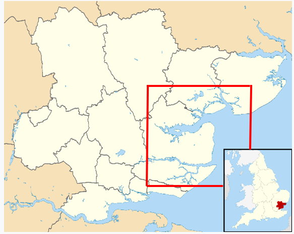 The inset map shows the location of Essex within the UK. The large red square shows the area of the Blackwater, Crouch, Roach and Colne estuaries Marine Conservation Zone.